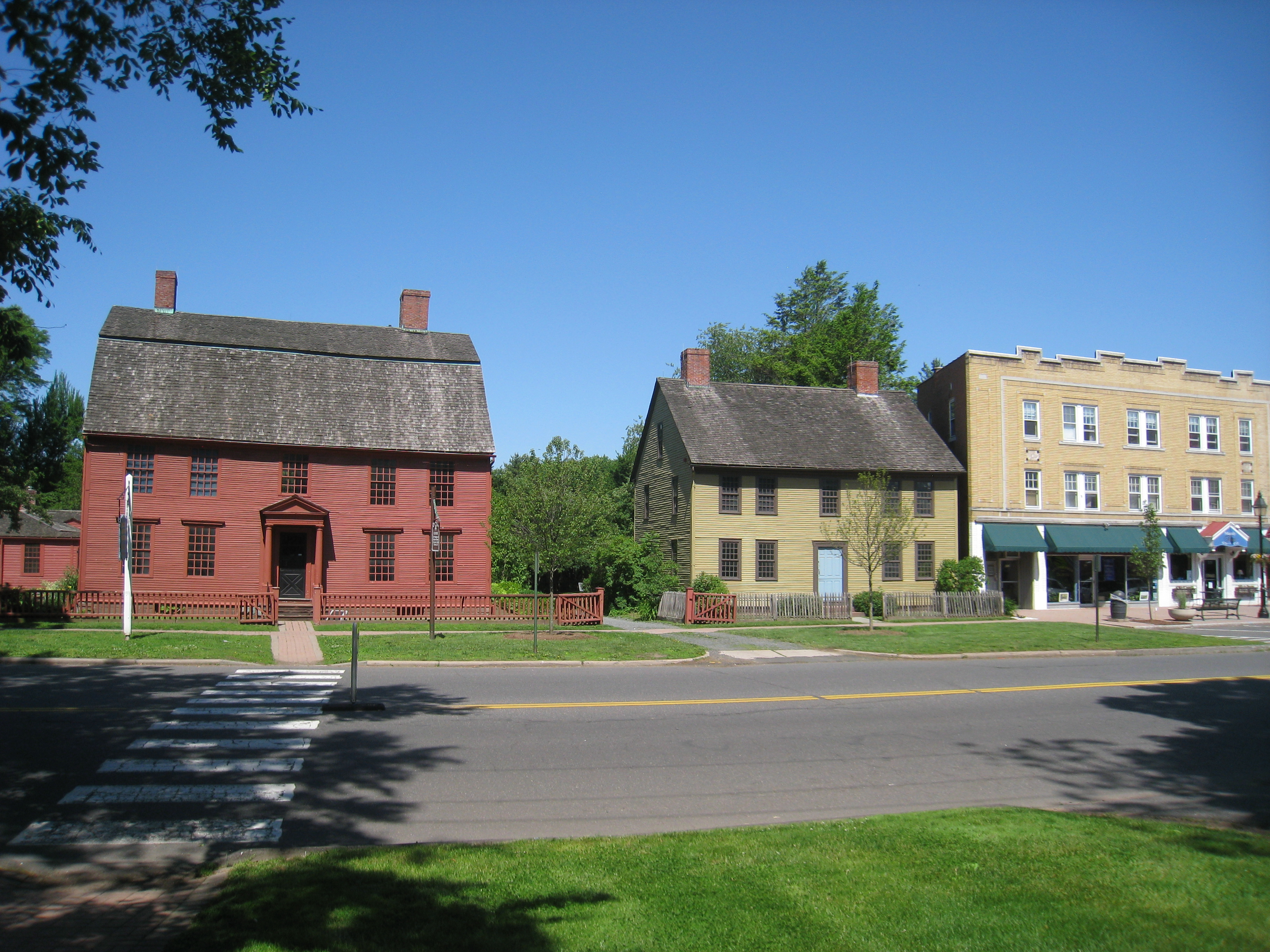 Joseph Webb and Isaac Stevens Houses, Wethersfield, Connecticut, USA. Built in 1781 and 1789 respectively.